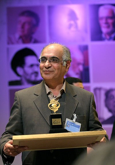 Houshang Moradi Kermani, Hall of Fame ceremony (14 8408230057 L600) more in Persian (ISNA archive